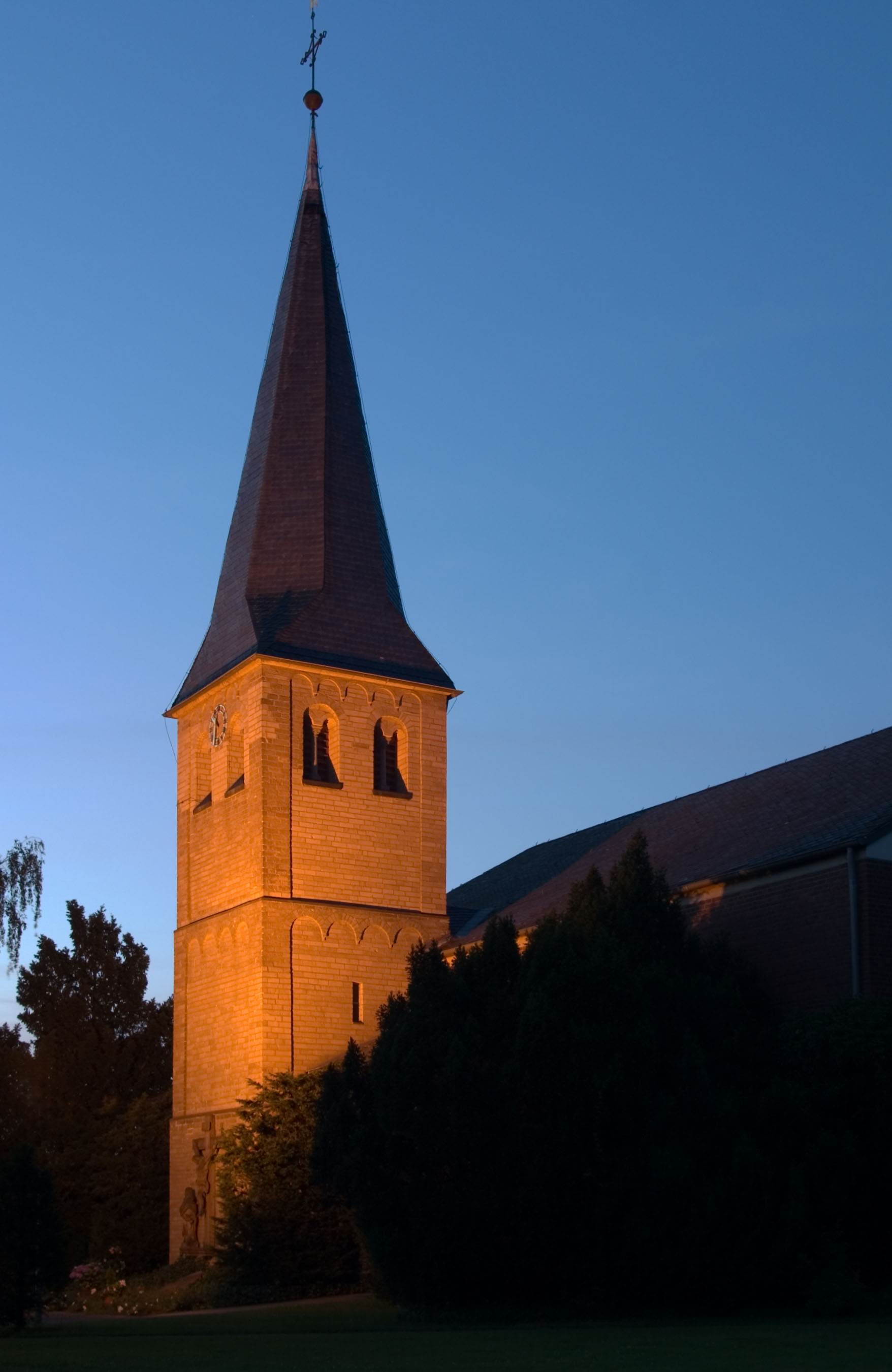 Catholic church St. Dionysius in Baumberg